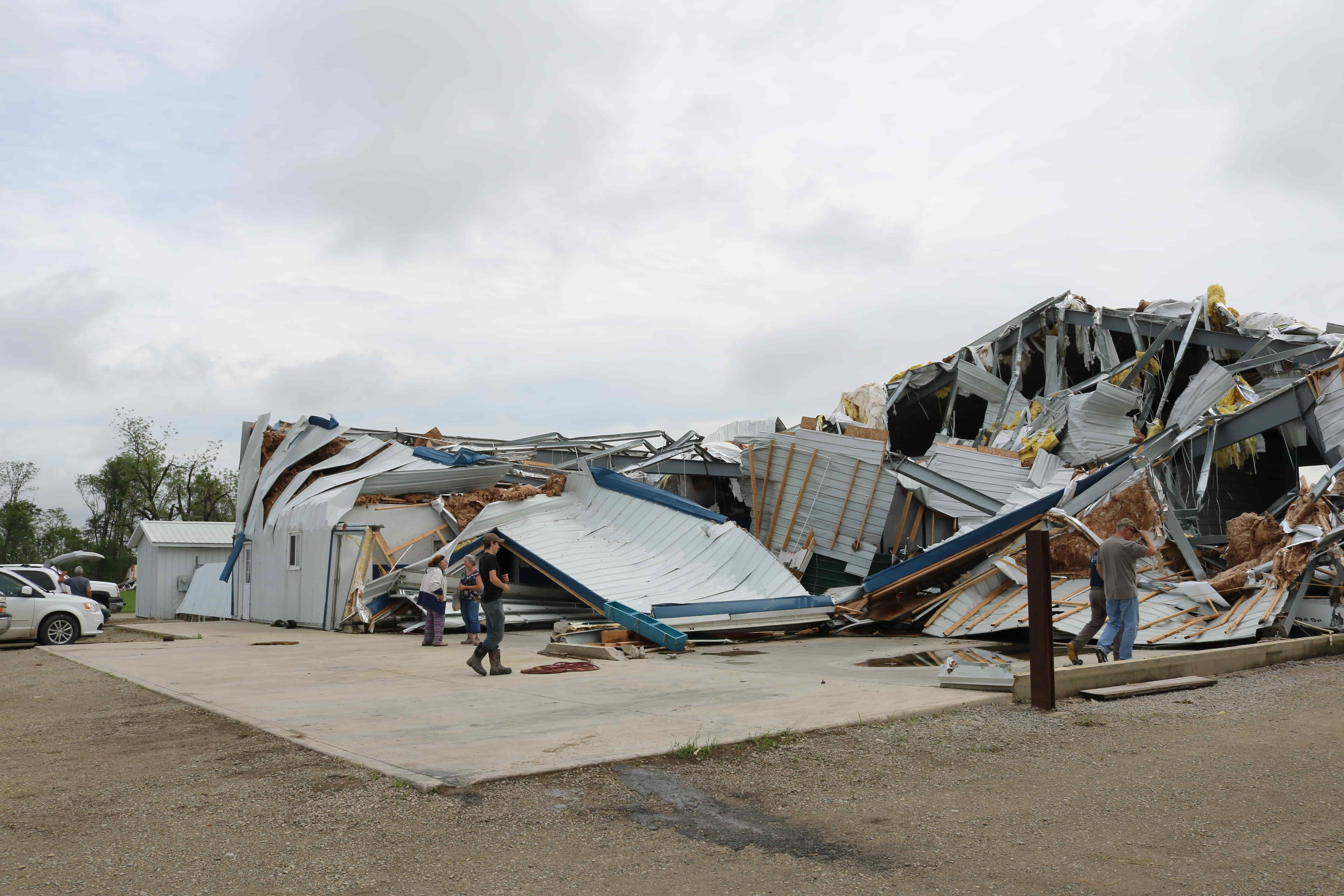 EF3 damage to a trailer manufacturing warehouse near Montpelier, Indiana.